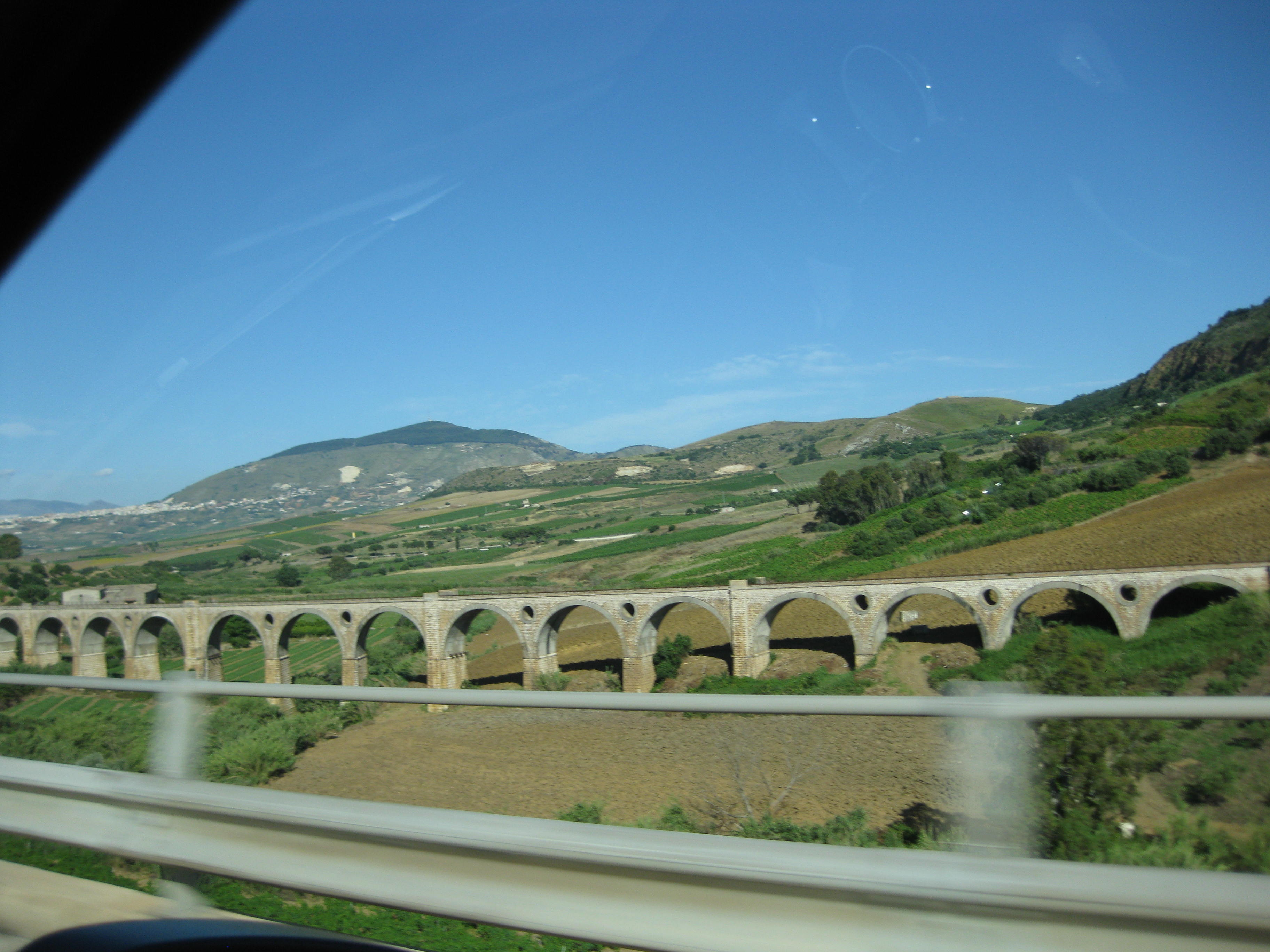 left in the background is Monte Bonifato